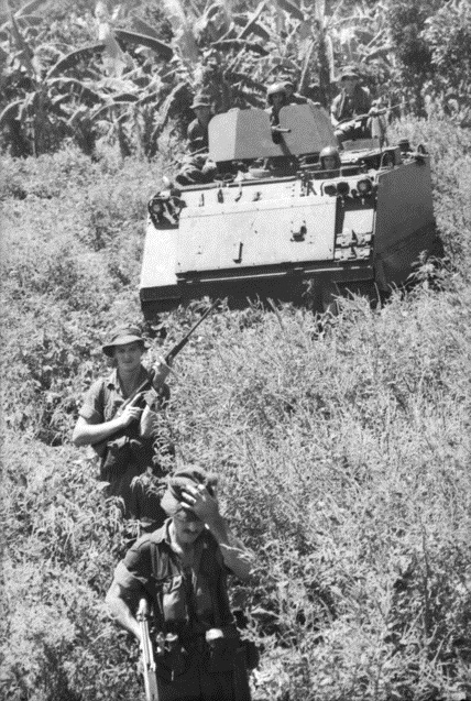 AWM Caption: Vietnam. 1966-06-25. Infantry advance by soldiers of the 6th Battalion, The Royal Australian Regiment (6RAR), as they move into their first operation. The infantrymen occupied a large Viet Cong village in the mission, code-named Operation Enoggera. Other soldiers followed on a tank of the 1st Armoured Personnel Carrier Squadron.